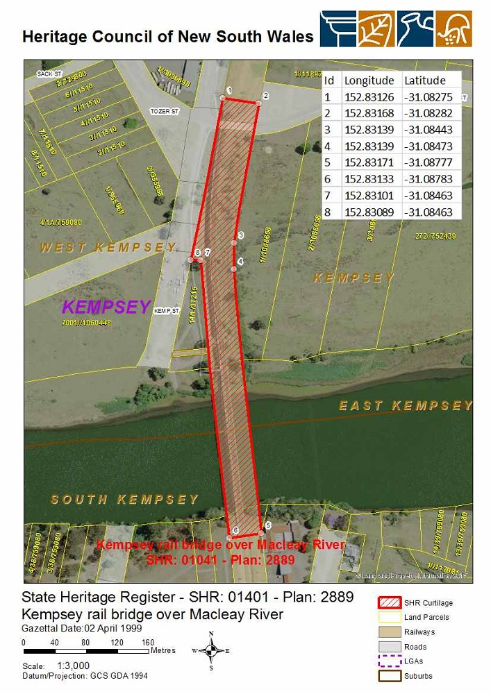 Macleay River railway bridge, Kempsey: SHR Plan No 2889